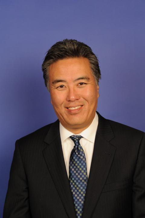 Congressman Mark Takano